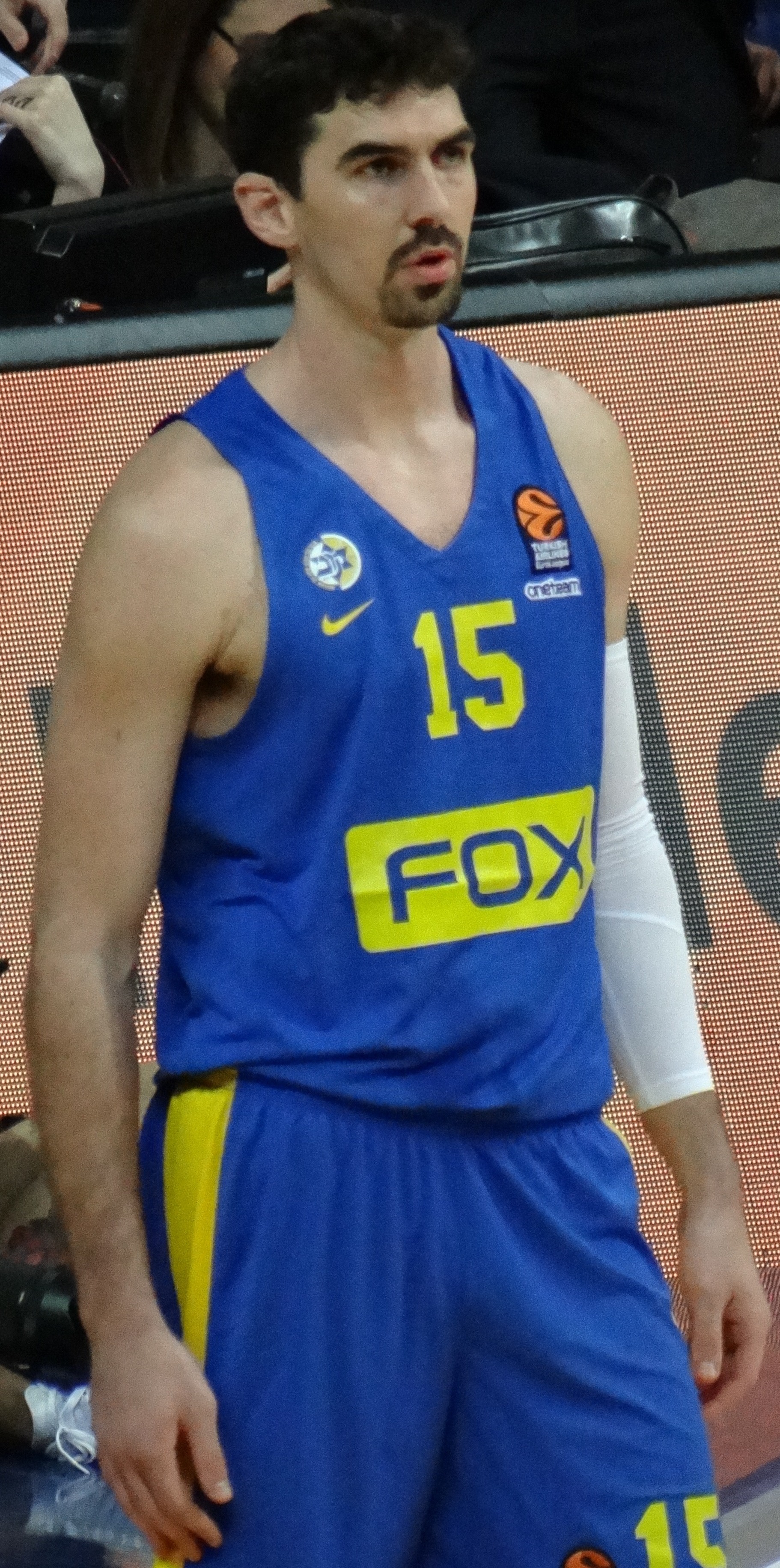 Jake Cohen 15 Maccabi Tel Aviv B.C. EuroLeague 20180320